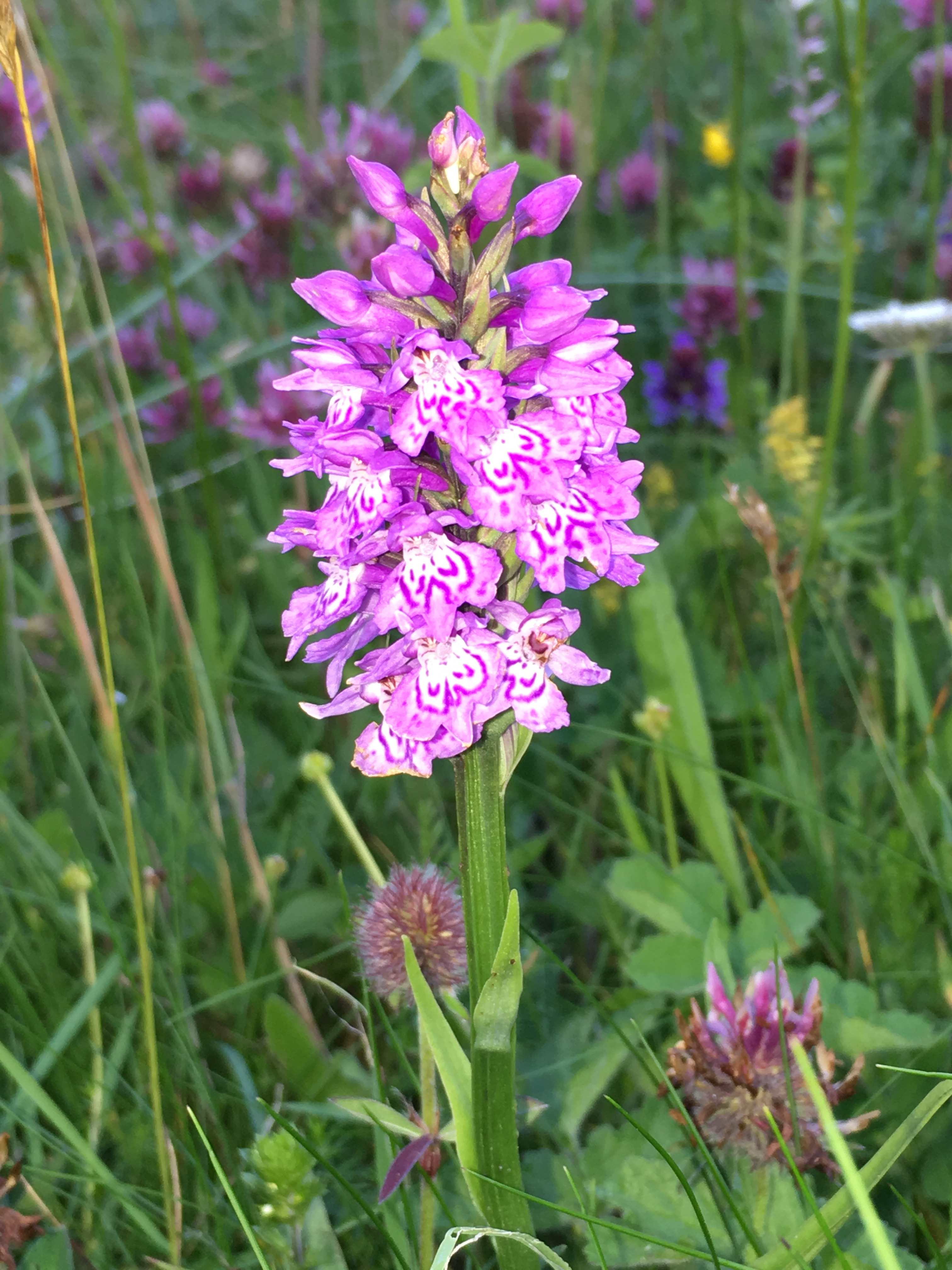 Taken on Machair, West Lewis, July 2016